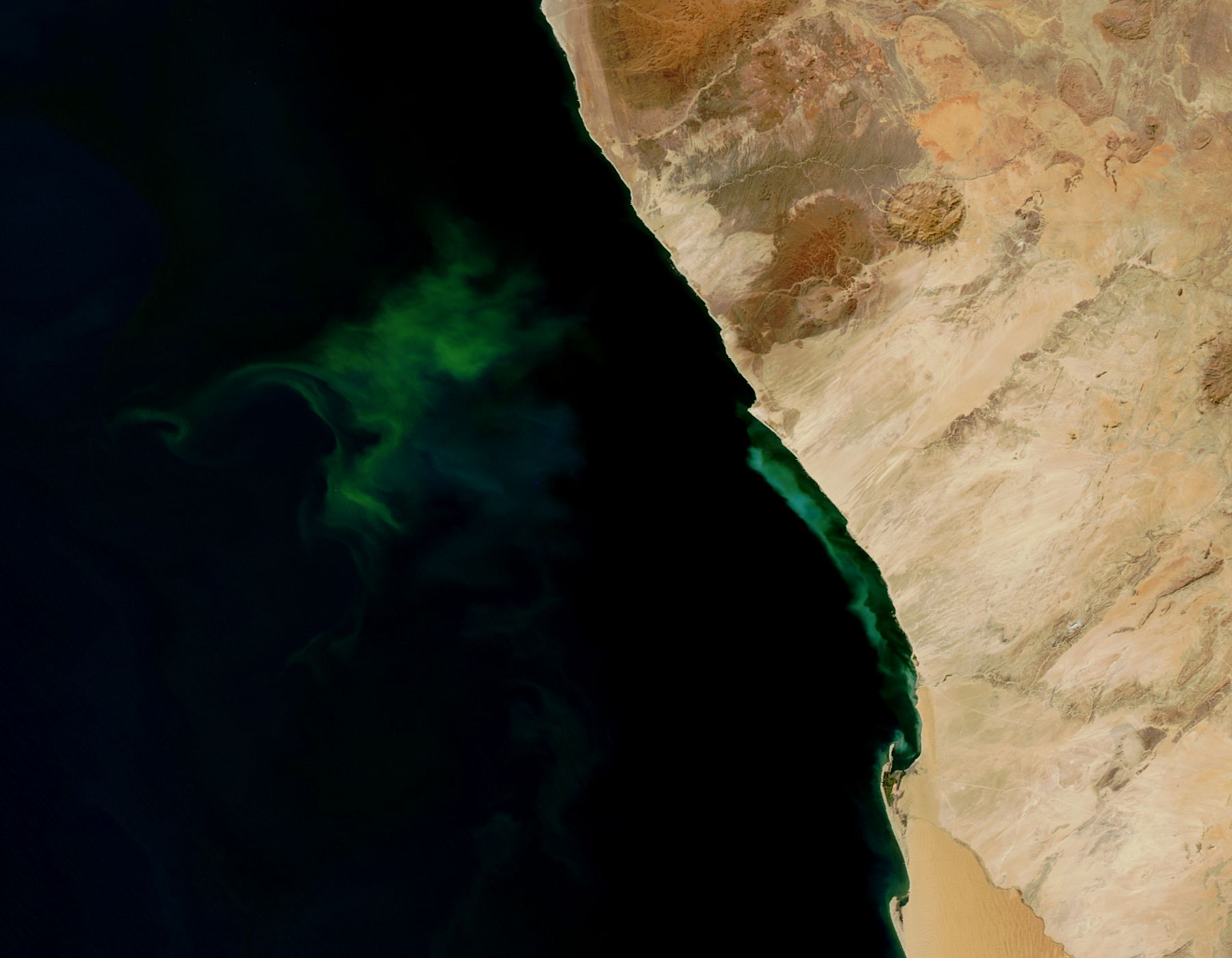 Phytoplankton and Hydrogen Sulfide off the Coast of Namibia: Brilliant green colors in the waters of the South Atlantic off the coast of Namibia mark out a large bloom of ocean plants and a hydrogen sulfide eruption. Like neon signs against a black night sky, phytoplankton and hydrogen sulfide form brilliant green streaks in the ocean water off the coast of Namibia in southern Africa. Though the two splashes of color are caused by different things, they are connected. On the left, the cloud of green is formed by millions of microscopic plants growing on the surface of the ocean. In this part of the South Atlantic, deep, cold ocean water hits the coast of Africa and pushes to the surface. The cold water brings nutrients up from the ocean’s depths, and this feeds a thriving marine ecosystem. Among the life nourished here is phytoplankton, the microscopic ocean plants that color the water on the left side of this image. Nutrients are so rich that dense blooms of phytoplankton often form off the southwest coast of Africa. As the plants die, they sink to the ocean floor. There, bacteria consume the plants, using up all of the oxygen in the water. Anaerobic bacteria that don’t require oxygen take over the decay process, releasing hydrogen sulfide gas as they work on the phytoplankton. The gas accumulates until it erupts to the surface. On its way up, it interacts with oxygen in the upper layers of the ocean and releases pure sulfur, a powdery yellow solid. The yellow sulfur gives the water near the shore its distinctive green tint. The eruptions are accompanied by a strong smell—sulfur smells like rotting eggs—and fish kills. The Moderate Resolution Imaging Spectroradiometer (MODIS) flying on NASA’s Aqua satellite captured this image on August 9, 2005.